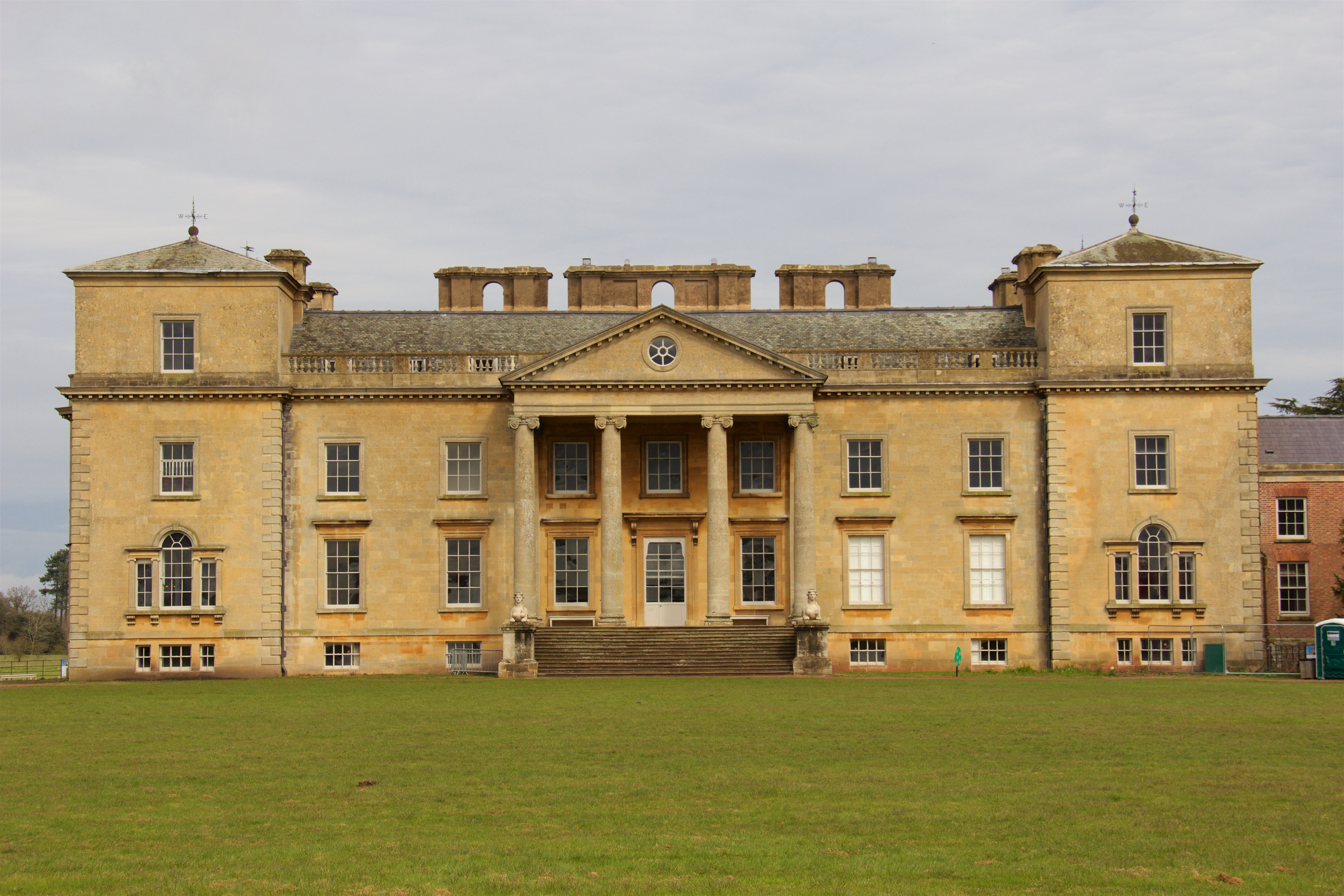 Croome Court, Croome D'Abitot, 2016